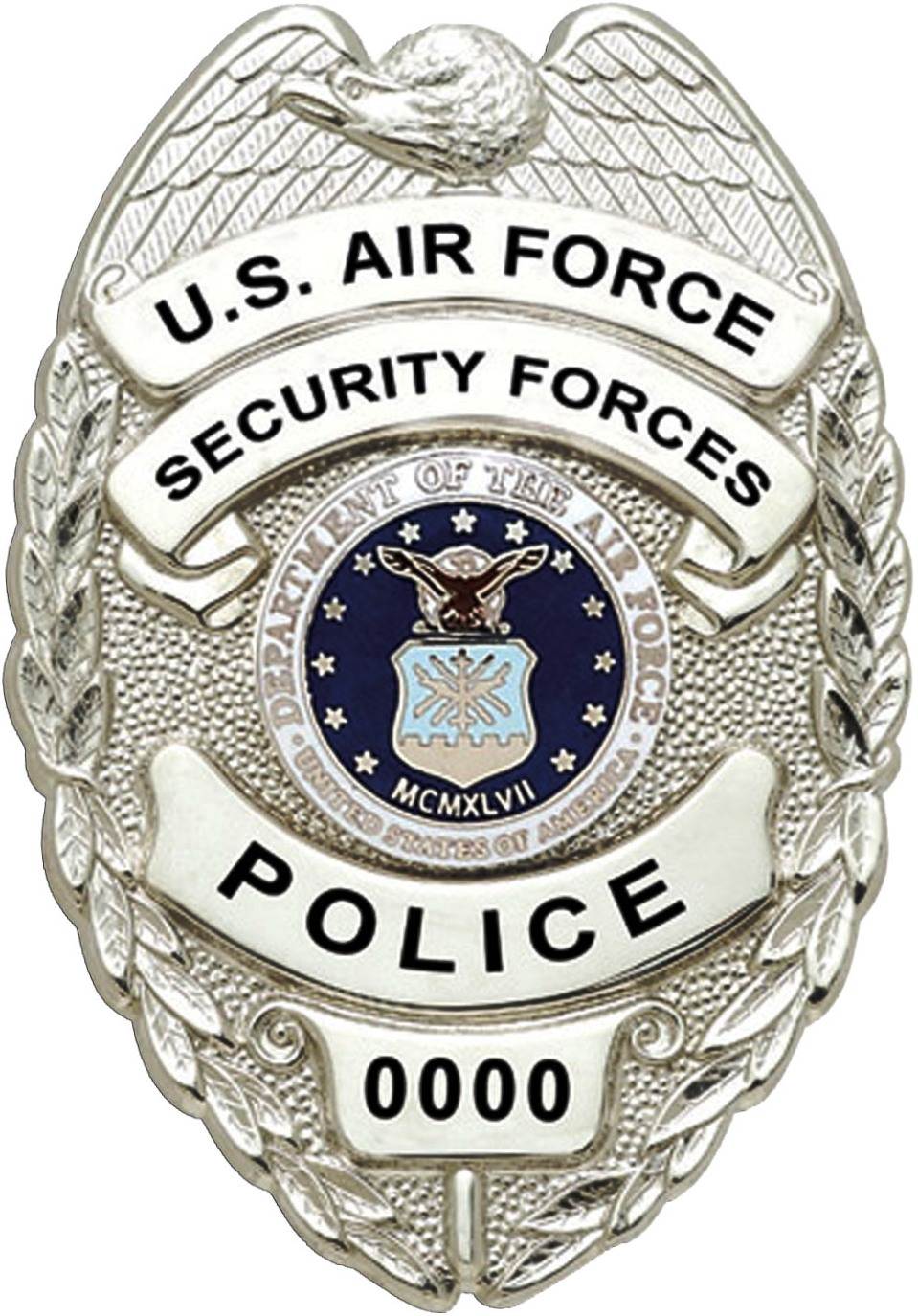 United States Air Force Security Forces Civilian Police Officer badge